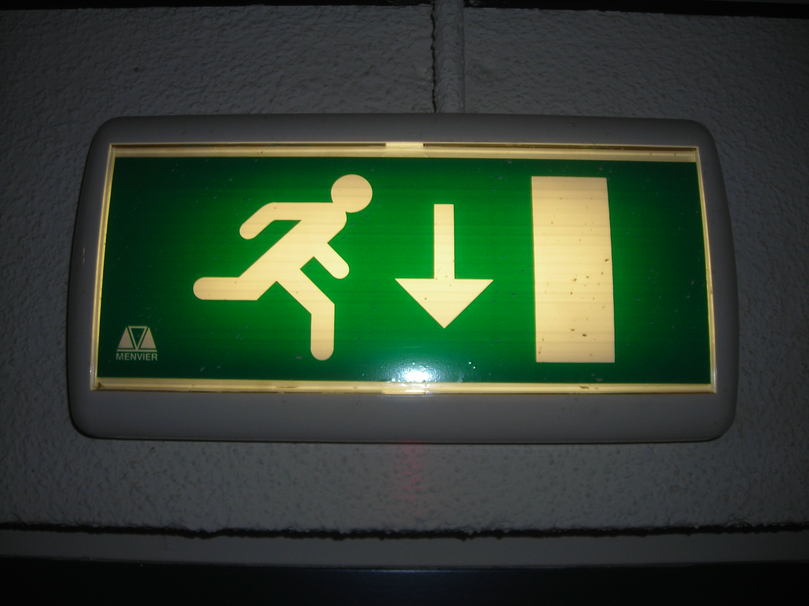 Emergency light with an emergency exit pictogram